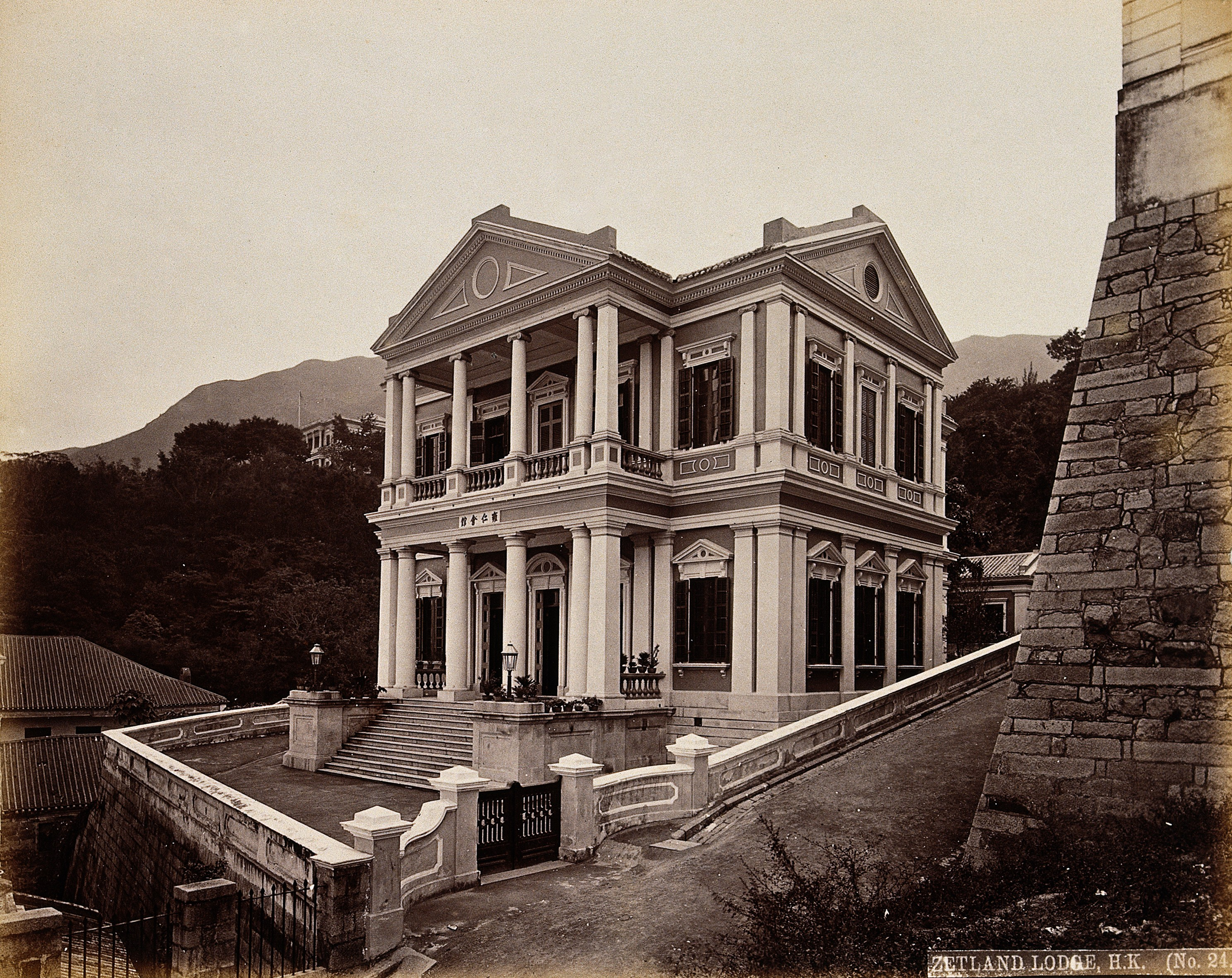 China Iconographic Collections Keywords: William Pryor. Floyd